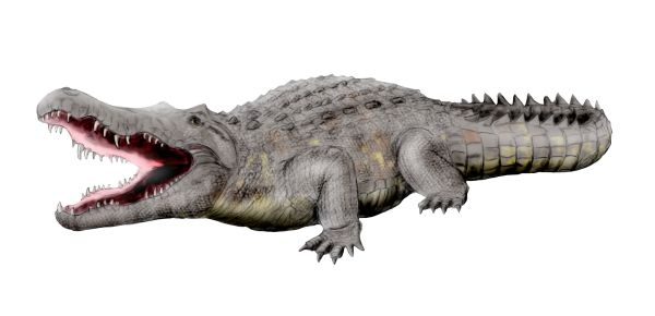 Crocodylus anthropophagus